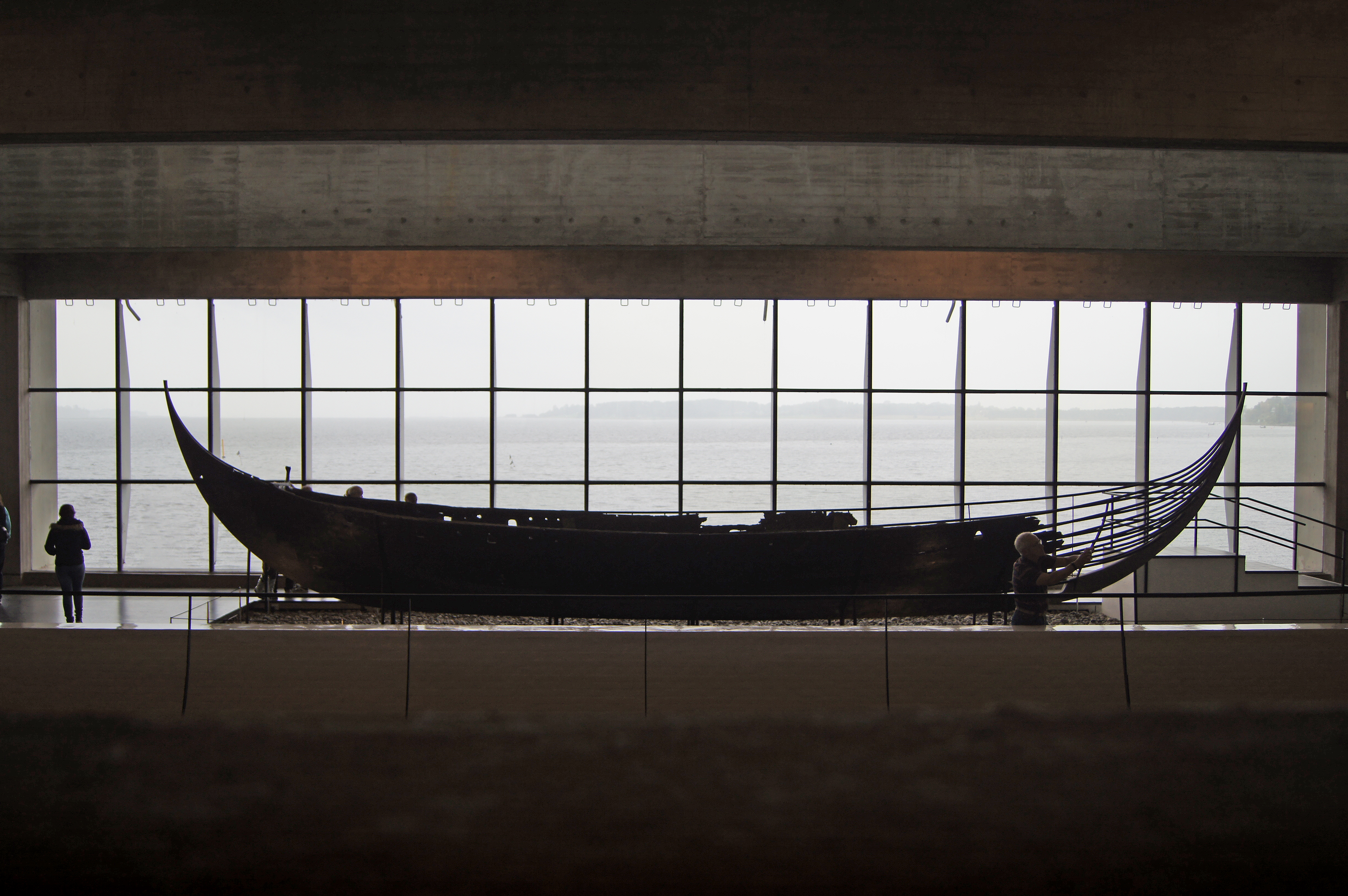 Viking-Ship at the Roskilde-Museum